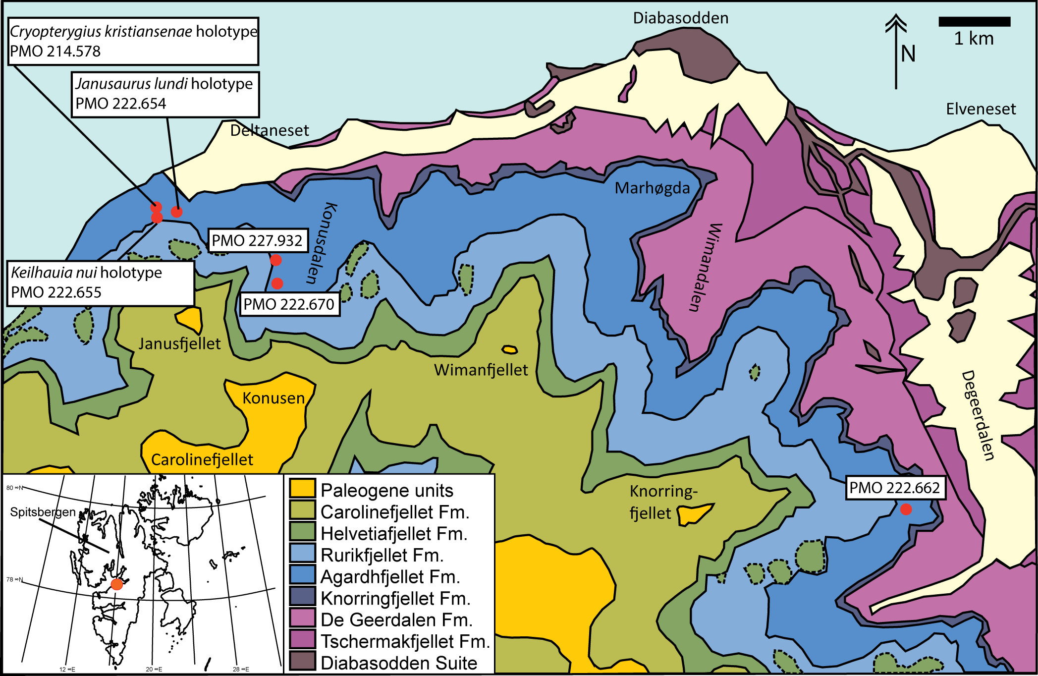 Fig 1. Map showing six ichthyosaur specimens from the Slottsmøya Member Lagerstätte discussed in the text (red dots). Overview map (left corner) shows the Svalbard archipelago and island of Spitsbergen; orange dot corresponds to excavation area. Adapted from Hurum et al. (2012).